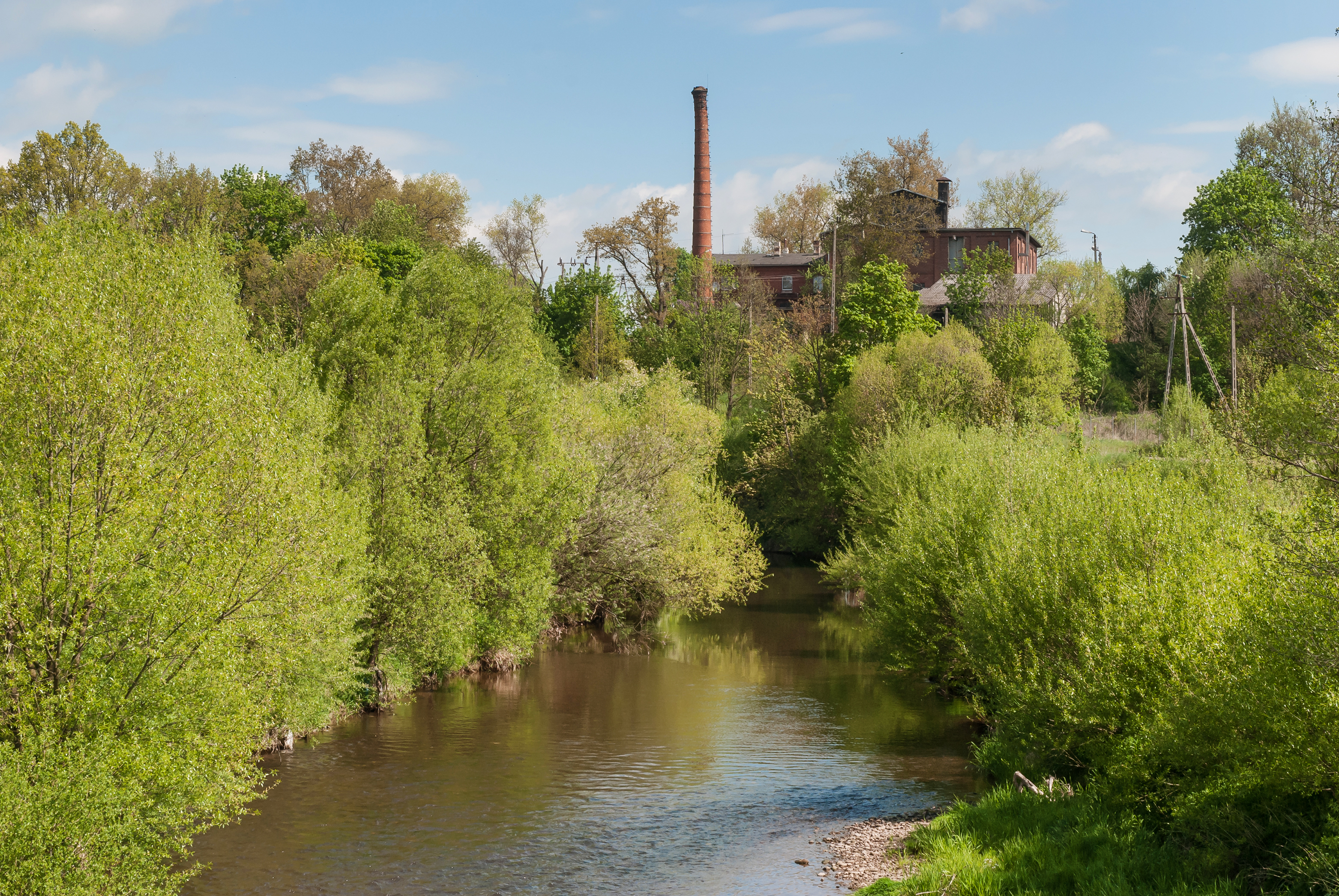 Ścinawka river in Gorzuchów